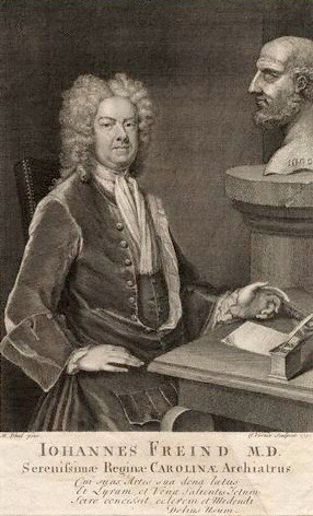 John Freind (1675-1728)